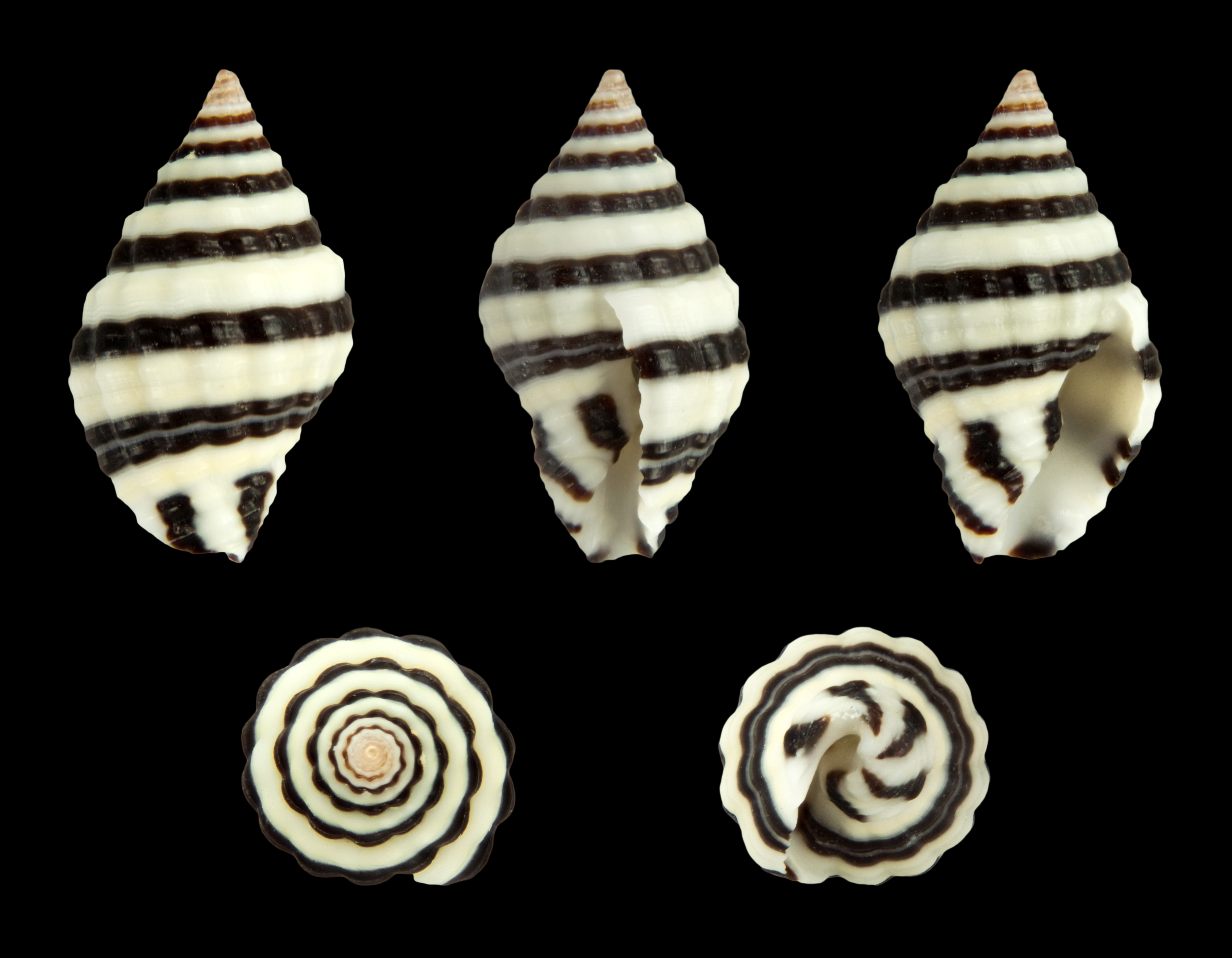 Engina zonalis (Lamarck, 1822), Banded Engina, juvenile; Length 0.9 cm; Originating from Ko Raya, Phuket Province, Thailand; Shell of own collection, therefore not geocoded.